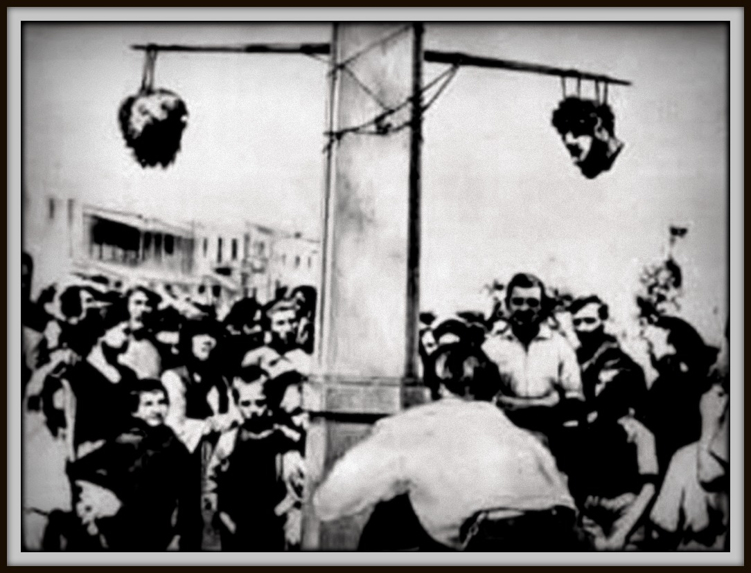 Heads of ex-leader of Greek People's Liberation Army Aris Veluhiotis and his adjutant Dzavelas severed by monarchists and put up for display in the central square of the city of Trikala.